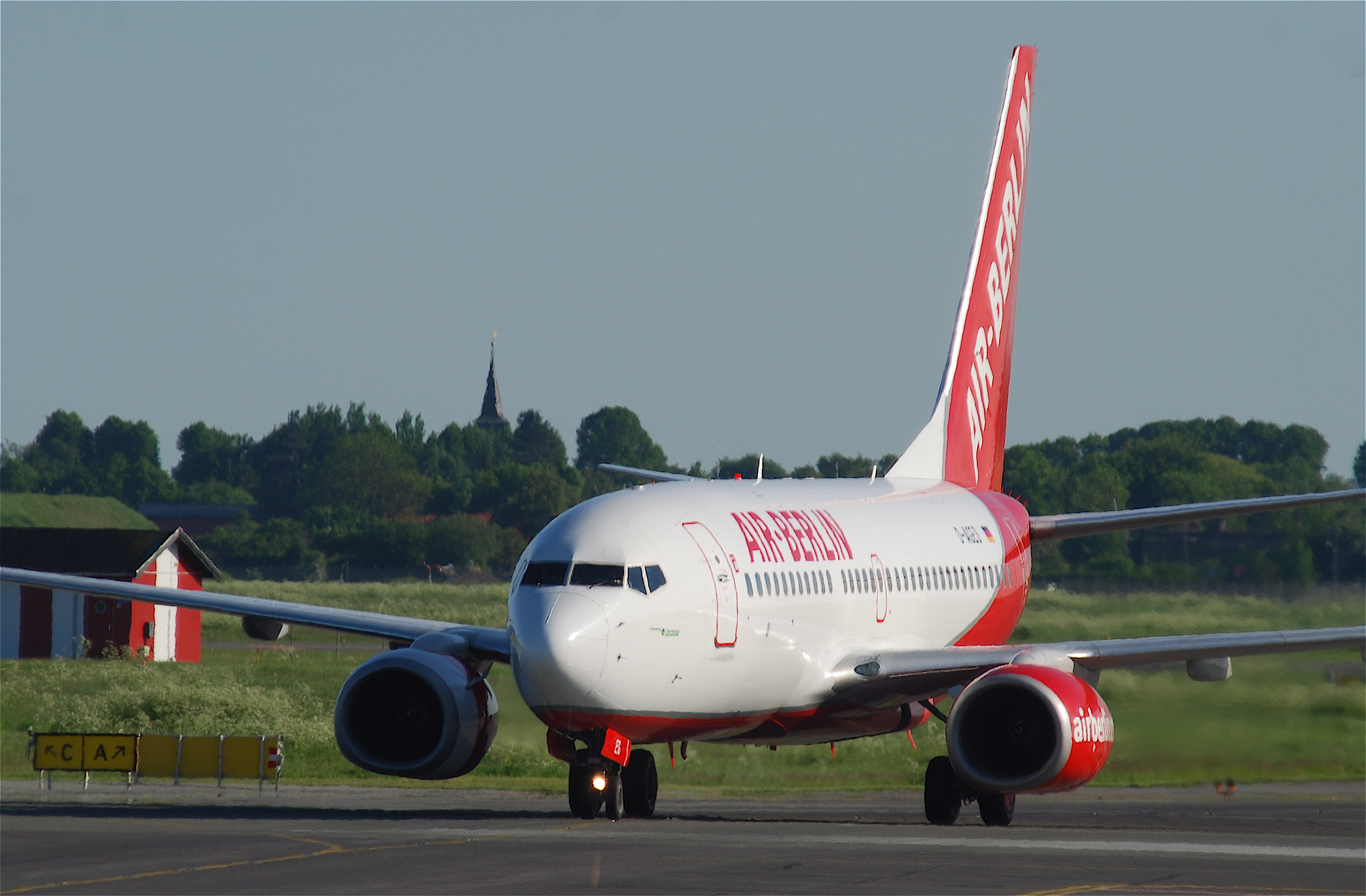 This Boeing 737-75B took its first flight on June 14, 1998...(c/n 28108/ 28) 30/06/1998 Germania D-AGES 01/03/2003 Hapag Lloyd Express D-AGES 15/01/2007 TUIfly D-AGES Air Berlin colours 11/2007 01/12/2008 Germania, operating for Air Berlin D-AGES